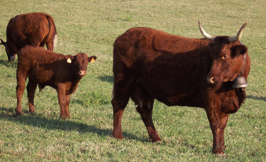 Salers breed cow (mother and calf)